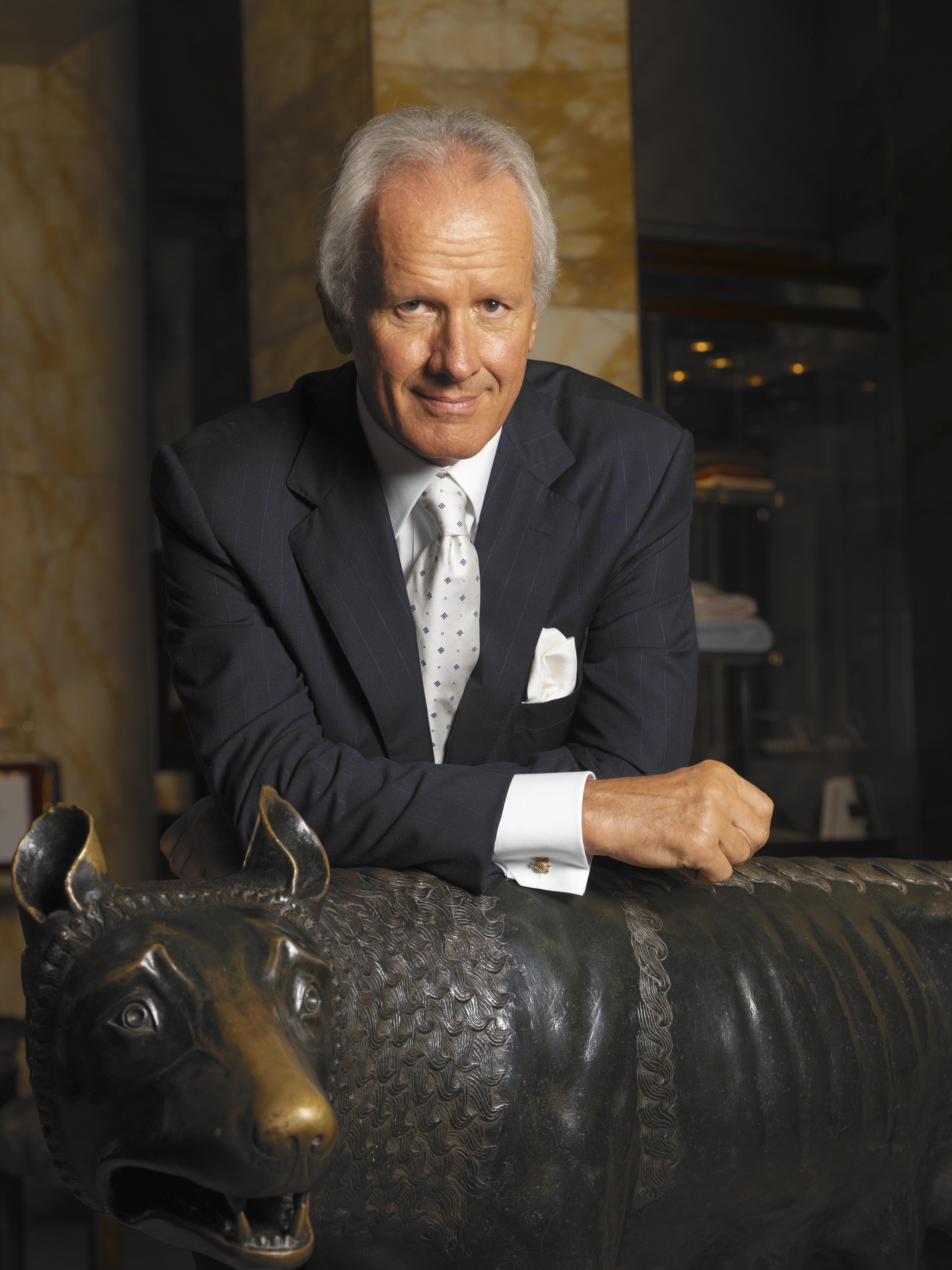 Picture 045